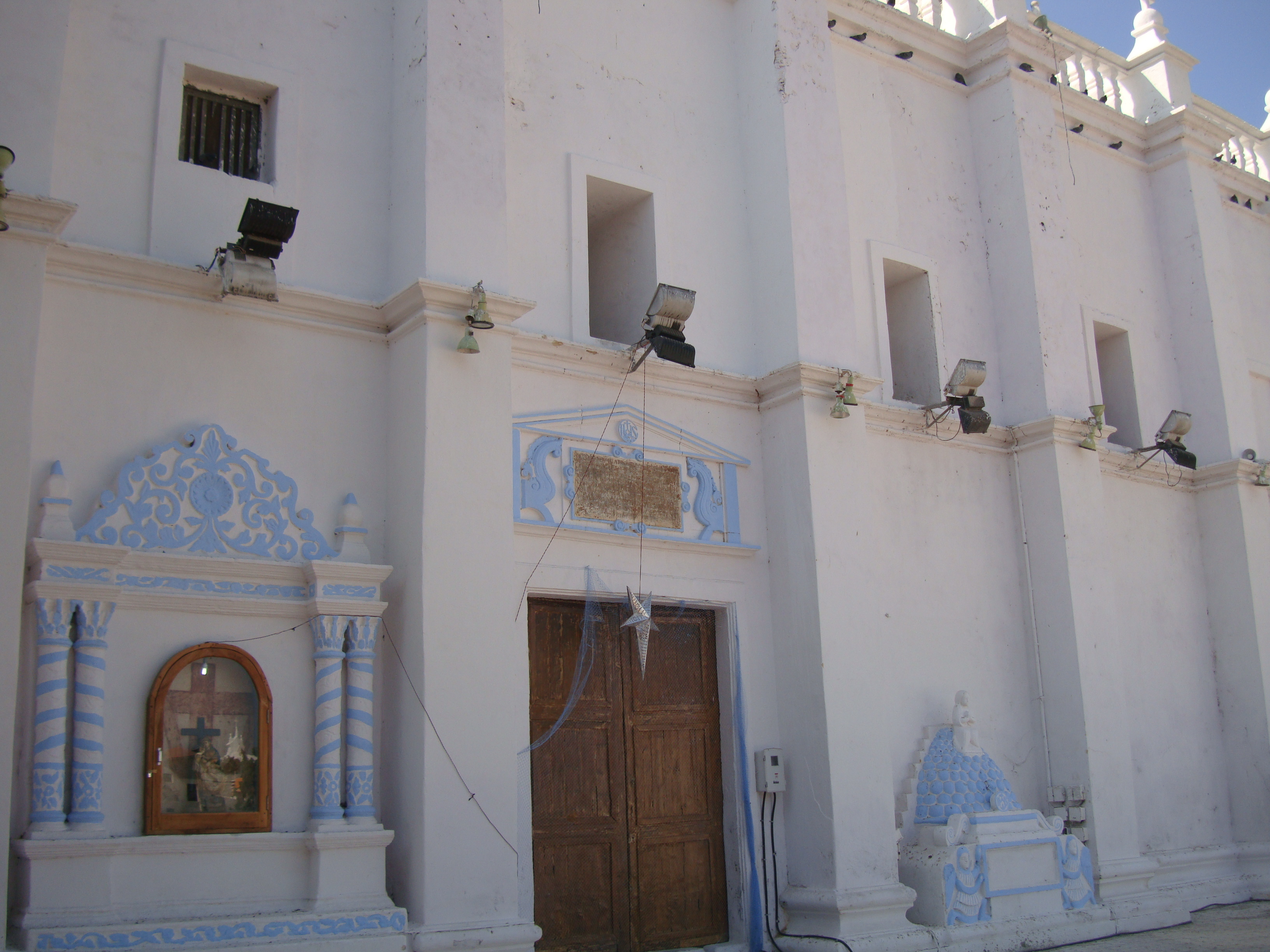 Church of St Paul